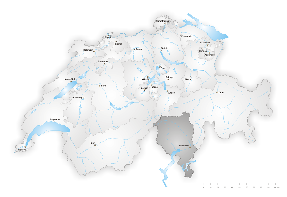 Kanton Tessin